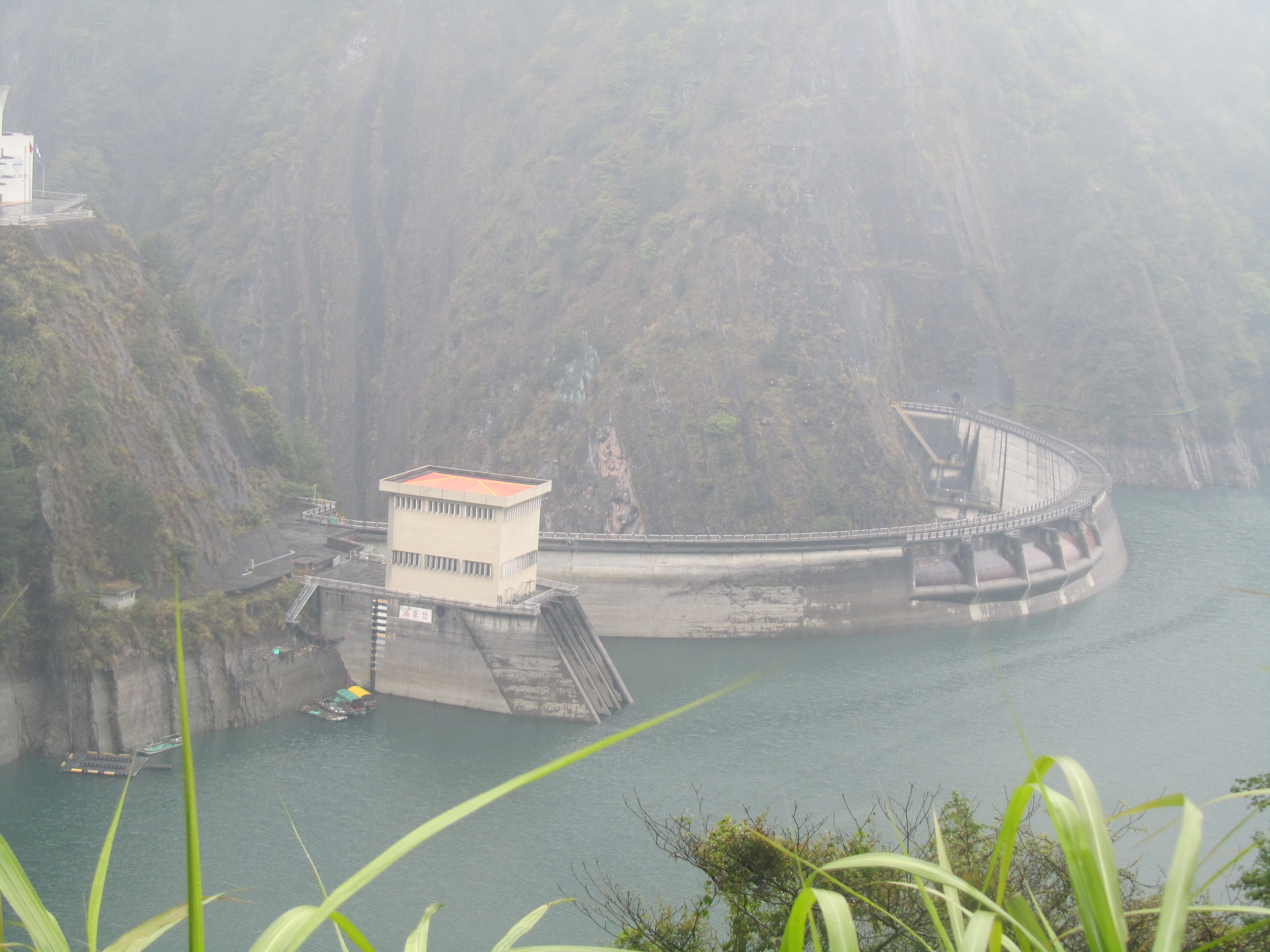 Tachia/Dajia arch dam in Taiwan